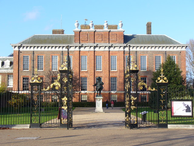 Kensington Palace, the South Front The palace was formerly known as Nottingham House. It was bought from the Earl of Nottingham by William and Mary in 1689 for £18,000.